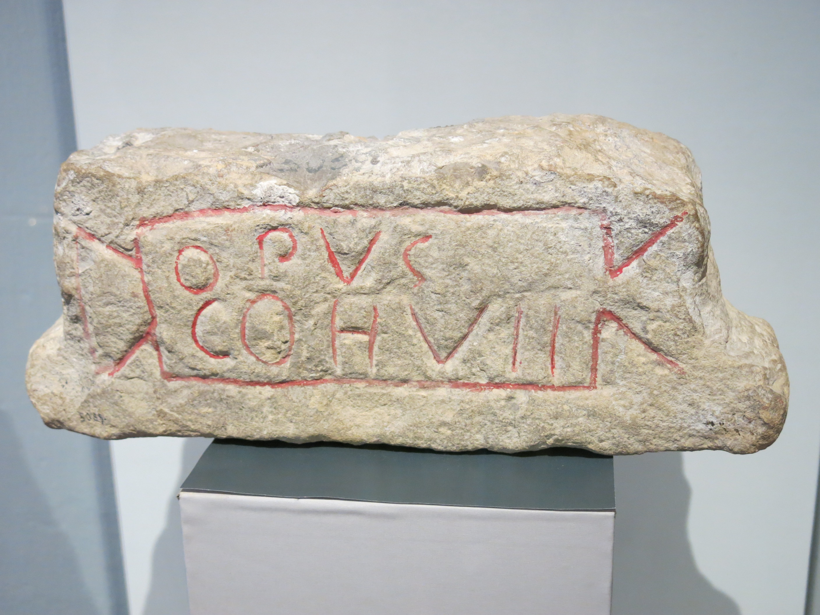 Dovetail shaped cartouche with mark of the 7th cohort in the archeological museum of Strasbourg (Bas-Rhin, France).